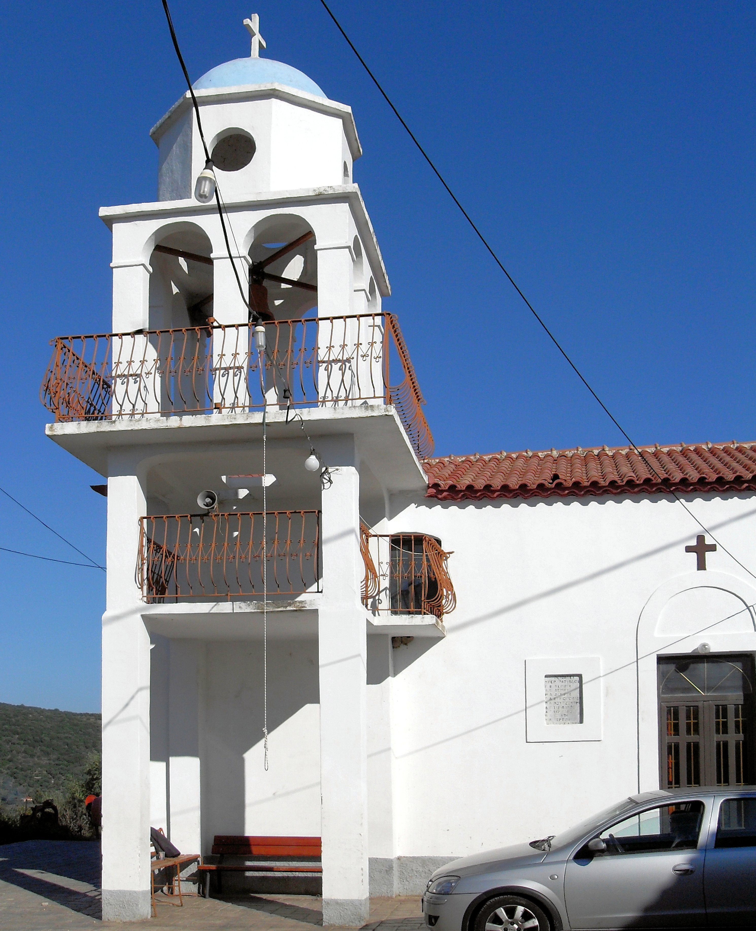 Church of Saint Demetrius in Falanthi, municipality of Koroni, community of Pylos-Nestor